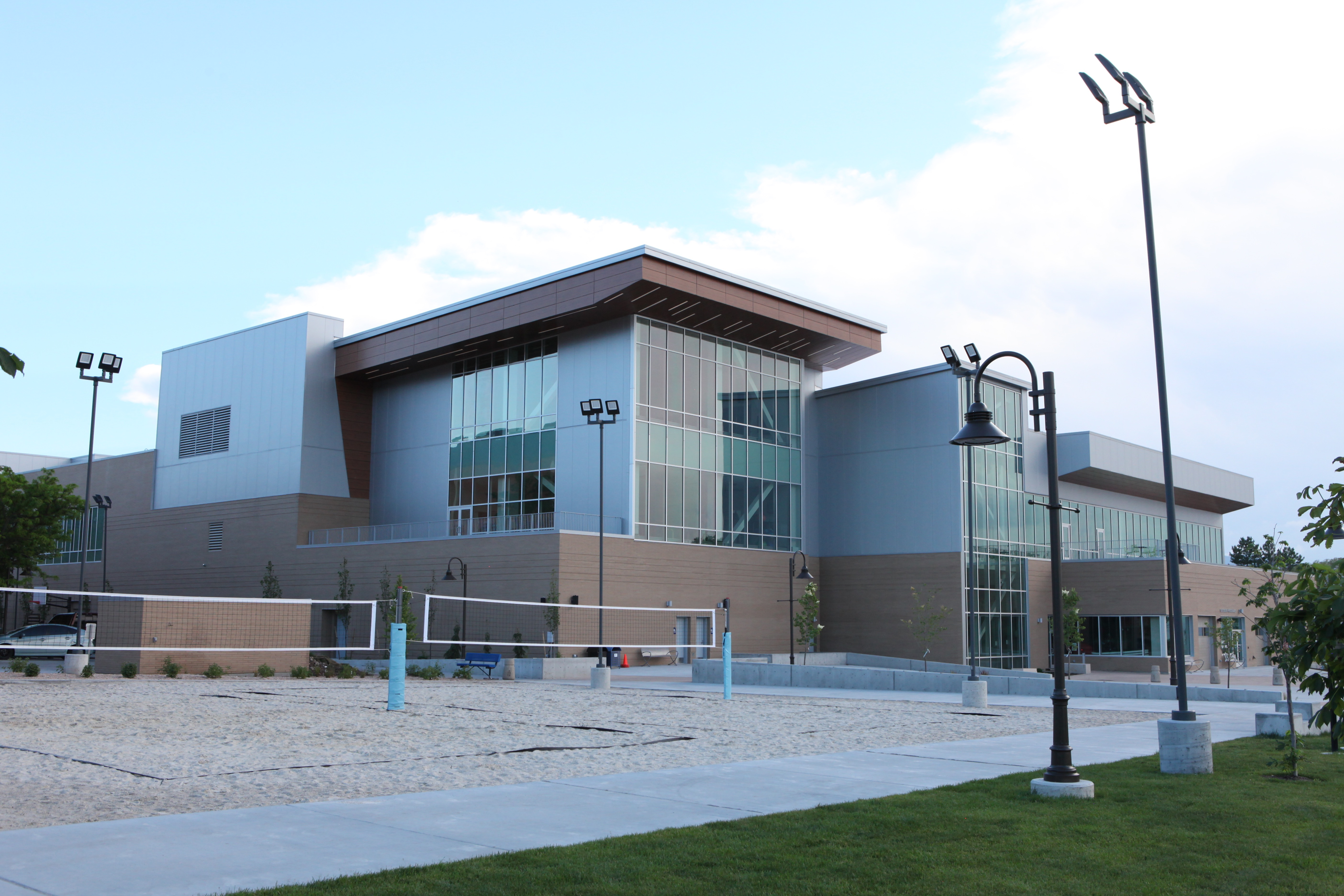 This is an image of the back of Utah State University's Aggie Recreation Center taken in June, 2016.